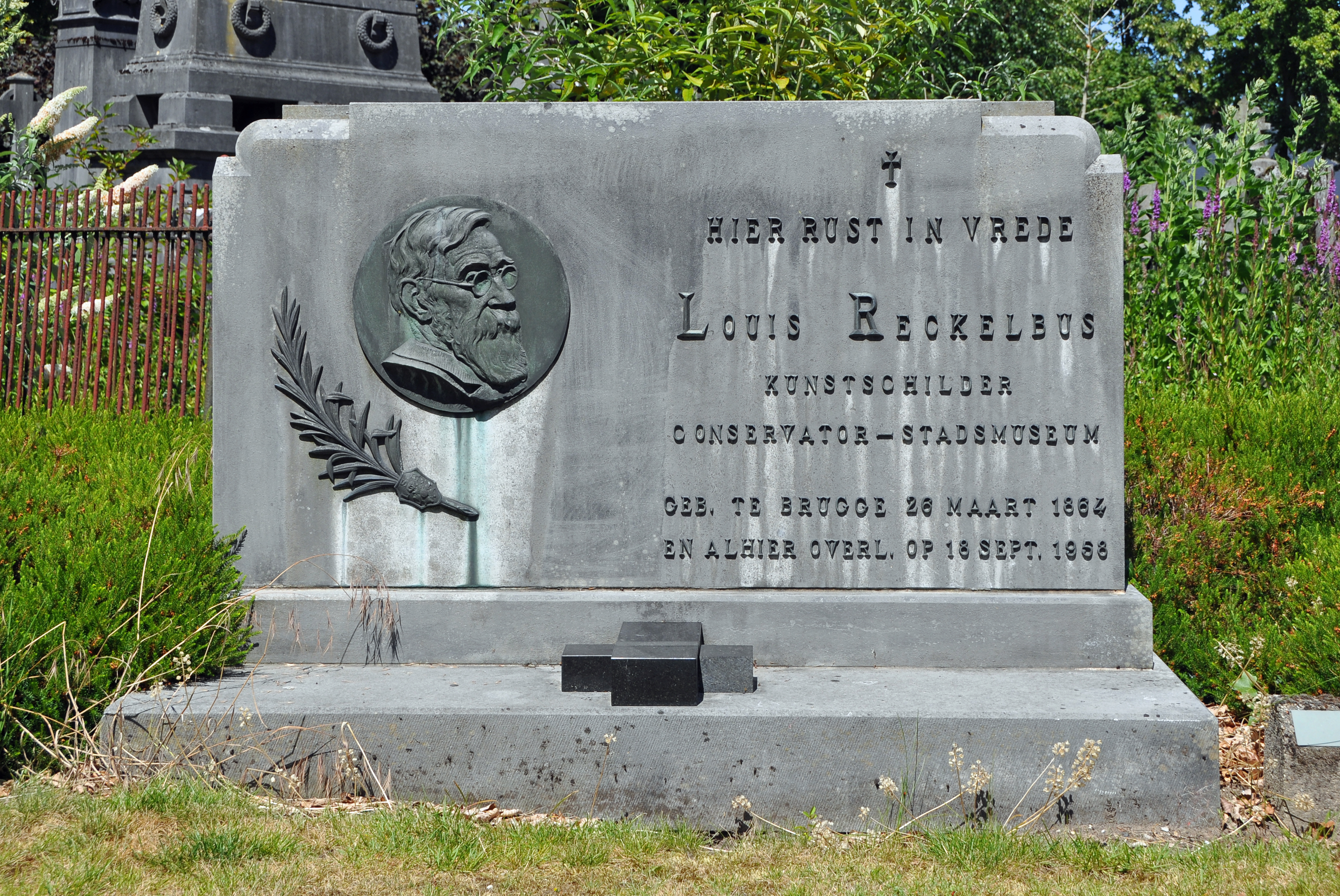 Bruges (Belgium), Municipal Cemetery: tomb of painter Louis Reckelbus (1864-1958)